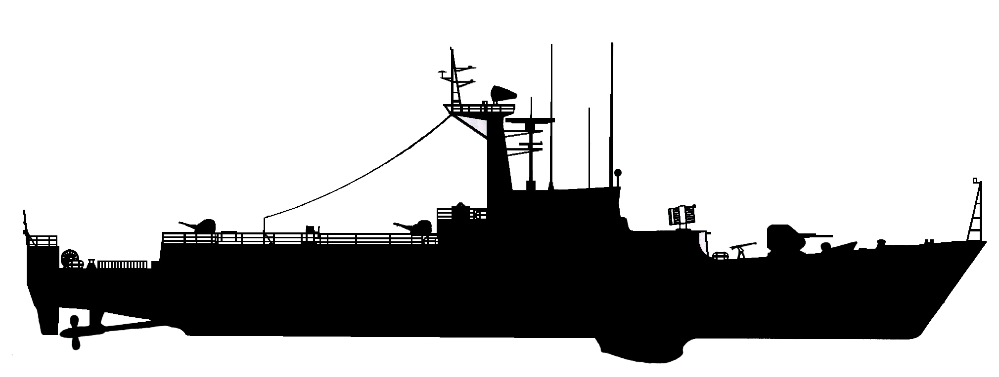 Polish Navy ship ORP Kaszub